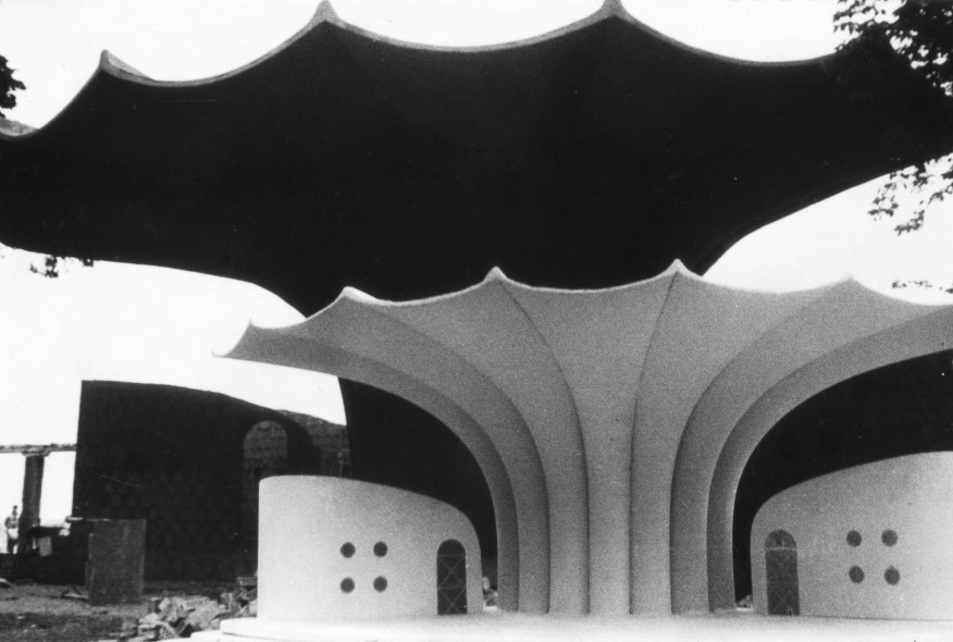 Sassnitz, Germany. Music-pavilion near the waterfront. Photograph of model and rough brickwork.